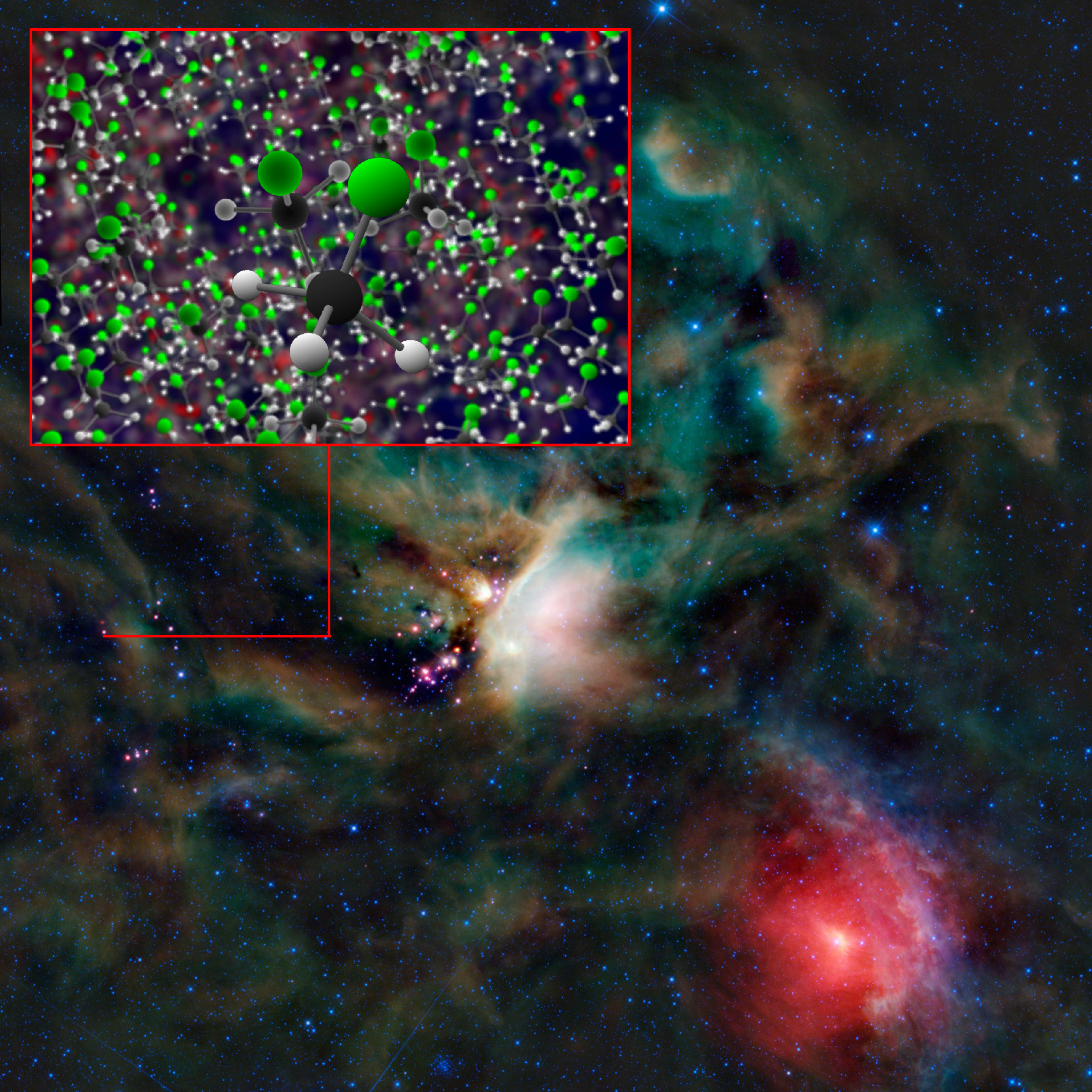 Organohalogen methyl chloride (Freon-40) discovered by ALMA around the infant stars in IRAS 16293-2422. These same organic compounds were discovered in the thin atmosphere surrounding Comet 67P/C-G by the ROSINA instrument on ESA's Rosetta space probe.